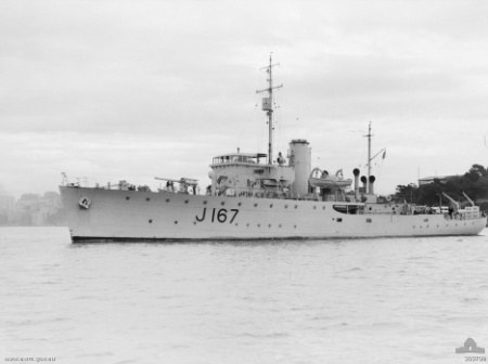 AWM Caption: SYDNEY, NSW. 1941. PORT BOW VIEW OF THE CORVETTE HMAS GOULBURN (J167). SHE IS SHOWN AS ORIGINALLY COMMISSIONED WITH UNSHIELDED 4 INCH GUN FORWARD, NO CLOSE RANGE ARMAMENT AND SEARCHLIGHTS SIDED IN THE BRIDGE WINGS. NOTE THE KITE/OTTERS AND FLOATS OF THE OROPESA MINESWEEPING GEAR ON THE QUARTERDECK.